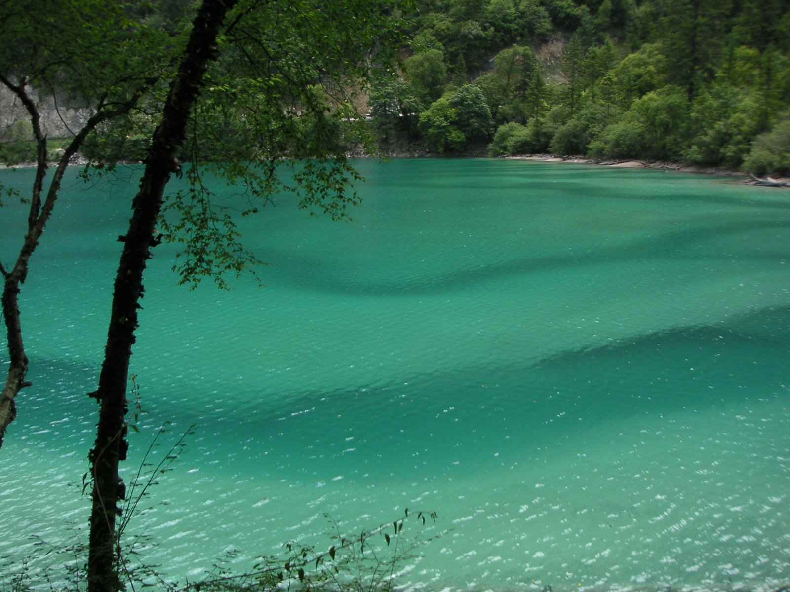 The colorful waters of Panda Lake in Jiuzhaigou Valley.